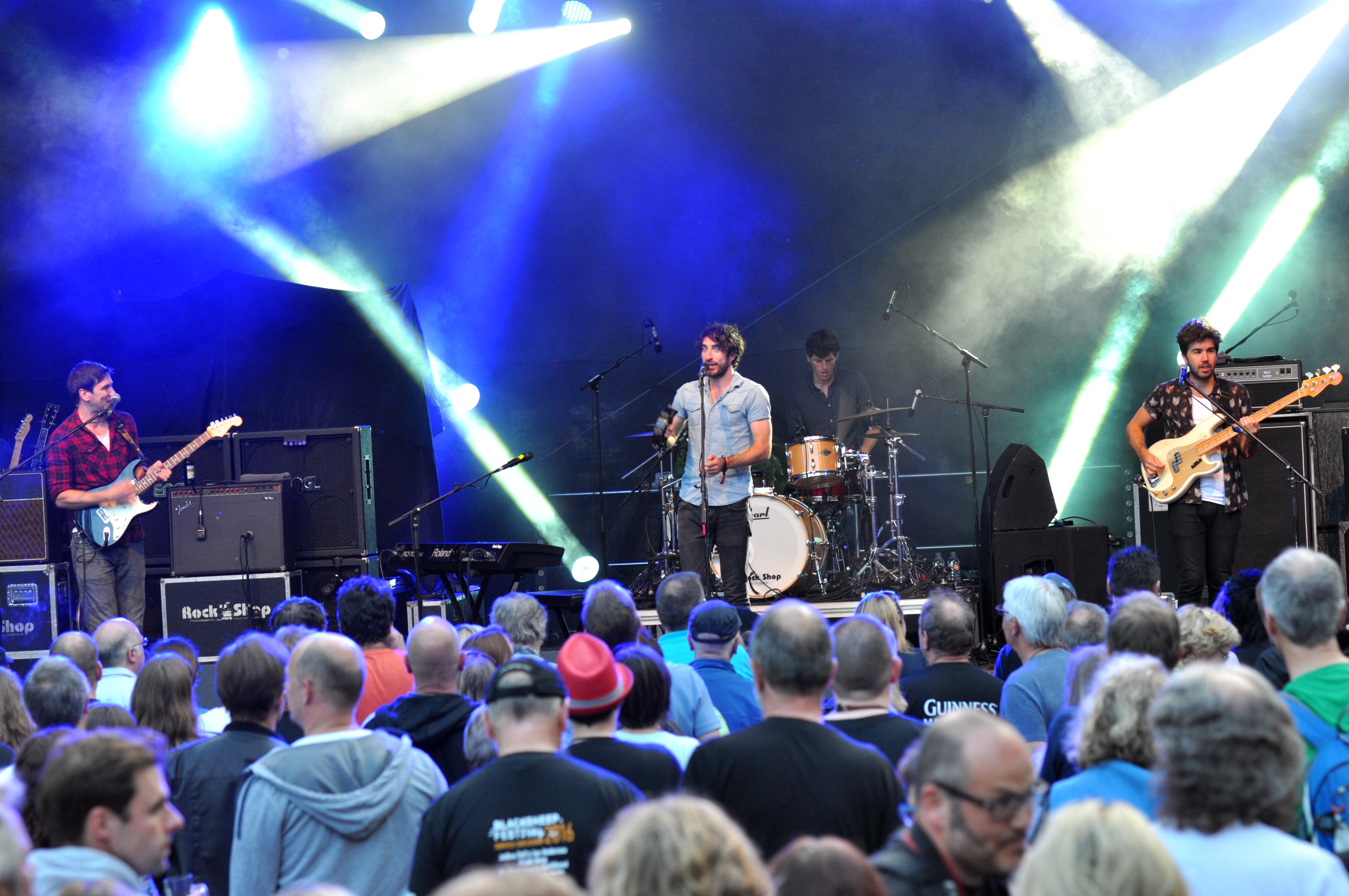 The Coronas (IRL) appearance at the 2016 blacksheep festival at Bonfeld castle, Bad Rappenau, Baden-Wuerttemberg, Germany Festivalsommer This photo was created with the support of donations to Wikimedia Deutschland in the context of the CPB project "Festival Summer".